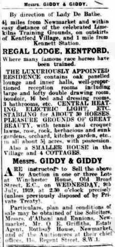 Sale of Lillie Langtry racing stables 1919